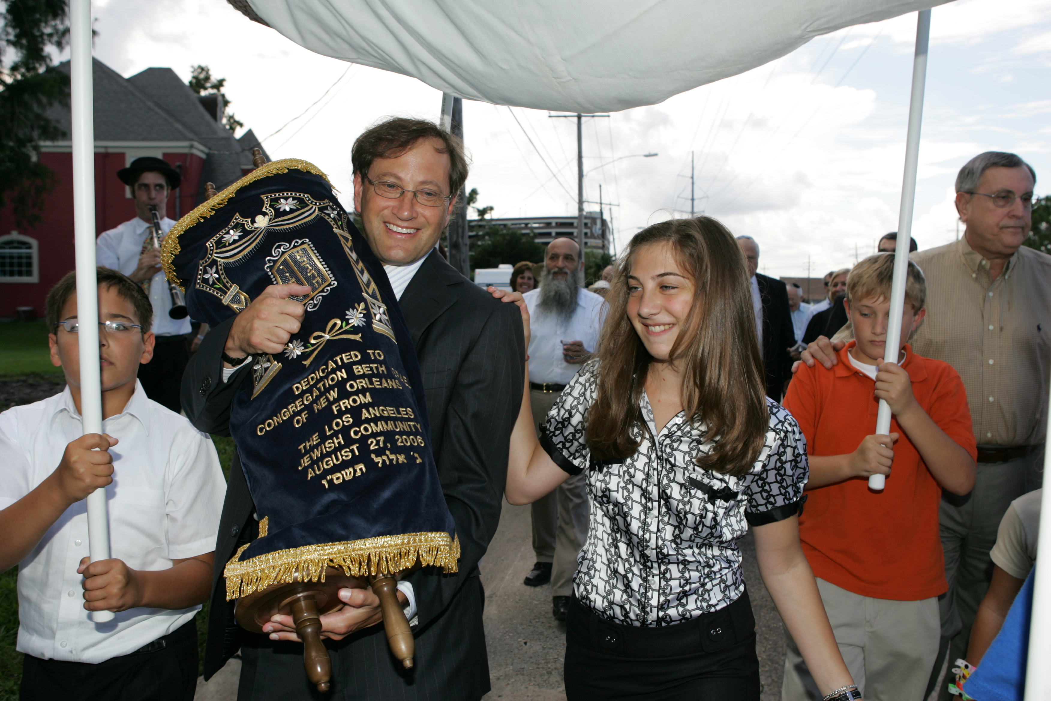 photo courtesy of Donna Matherne Two weeks after Hurricane Katrina struck the Gulf Coast, volunteers with an Israeli charity rescued seven Torah scrolls from the synagogue. The scrolls were damaged beyond repair, and an energetic Los Angeles teenager named Hayley Fields (pictured) decided to do something about it. formed a non-profit called “Every Minute Counts.” By selling watches with this phrase engraved on it for $5.00 a piece, she raised $18,000 to purchase a new Torah for Beth Israel. On August 27, one year after the storm, she and her family came to New Orleans to present the scroll to congregation. She is pictured above with her father, who is holding the Torah scroll. Read more in This Week in History. This photograph was taken by Donna Matherne at the Torah dedication ceremony at Beth Israel Congregation on August 27, 2006. Since Katrina, Beth Israel Congregation has been holding their services in their own hall at Congregation Gates of Prayer in Metairie, Louisiana. The Torah is being carried through the neighborhood, from the Chabad Center two blocks away to Congregation Gates of Prayer.